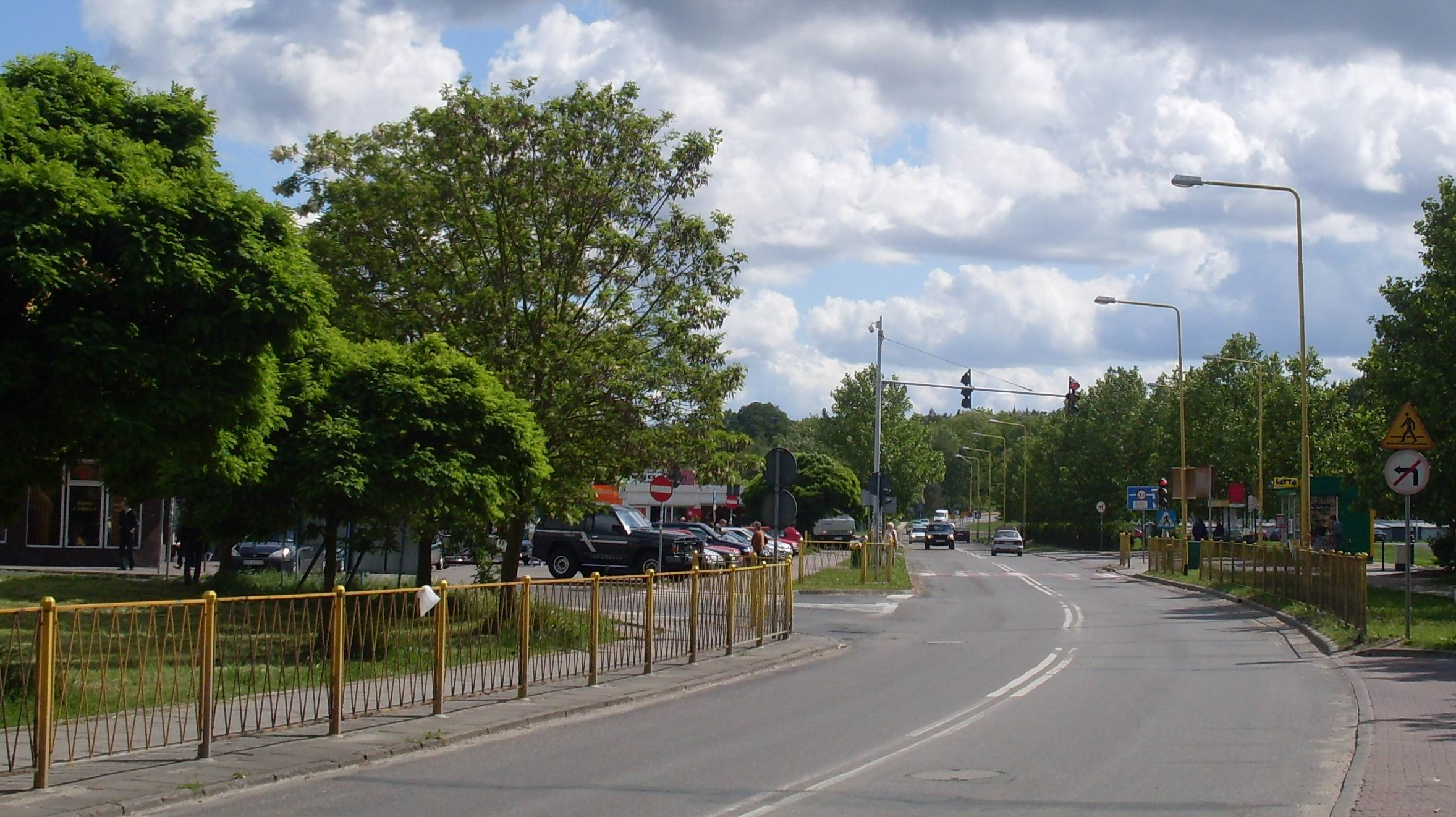 Wyszyńskiego Street in Police, Poland